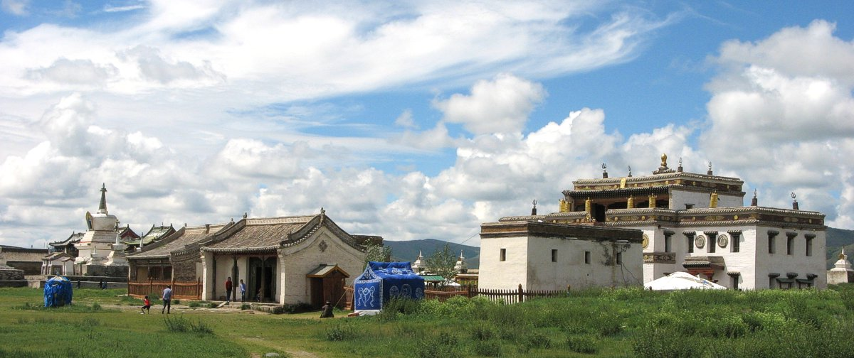 Monastery compound of Erdene Zuu, Mongolia